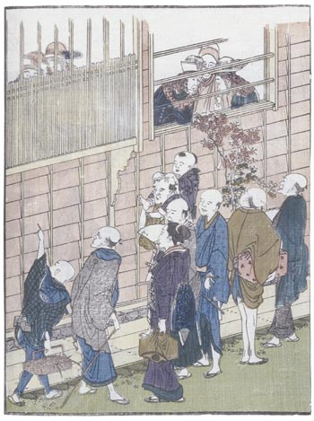 Curious Japanese watching Dutchmen lodging in the Nagasakiya Inn in Edo. During the Edo period, the chief of the Dutch trading post Dejim had to travel to Edo to express the gratitude of the Dutch East India Company at the court of the shogun. During their stay in Edo they lodged in an inn called Nagasakiya in the quarter Hongokuchō.